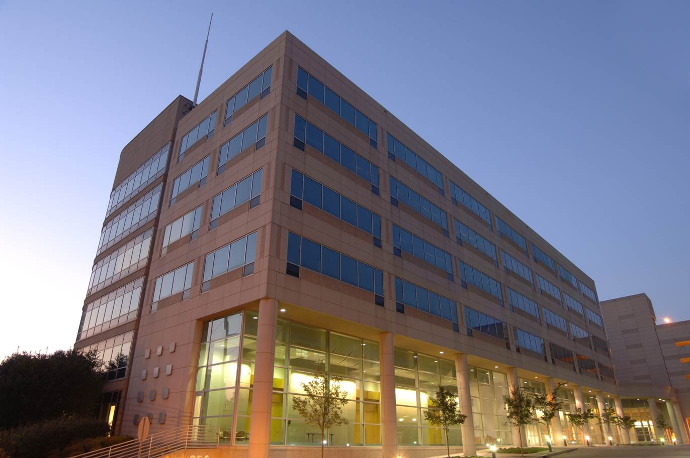 The Georgia Tech Research Institute's headquarters building, located on 14th street in Midtown Atlanta, Georgia, US.